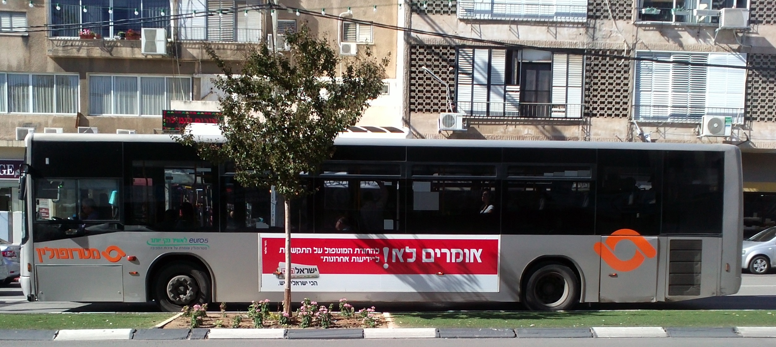 Campaign of "Israel Hayom" against the Press Order.